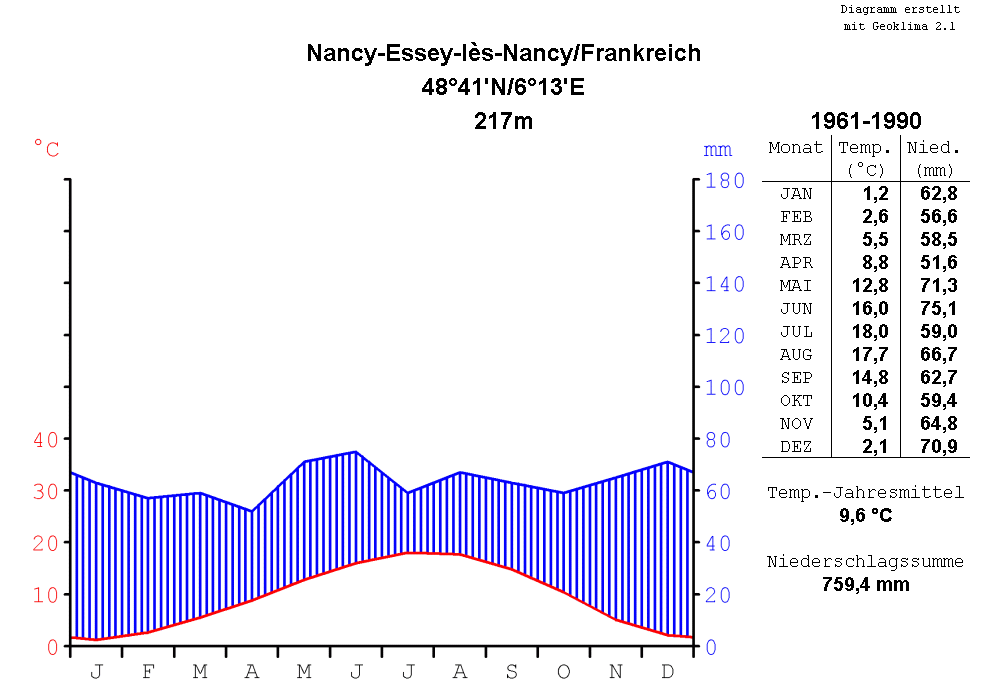 climate chart of Nancy-Essey-lès-Nancy, France, for the period of time from 1961 to 1990, in the format by Walter and Lieth, metric, °Celsius and millimeters, chart made with Geoklima 2.1, label in German